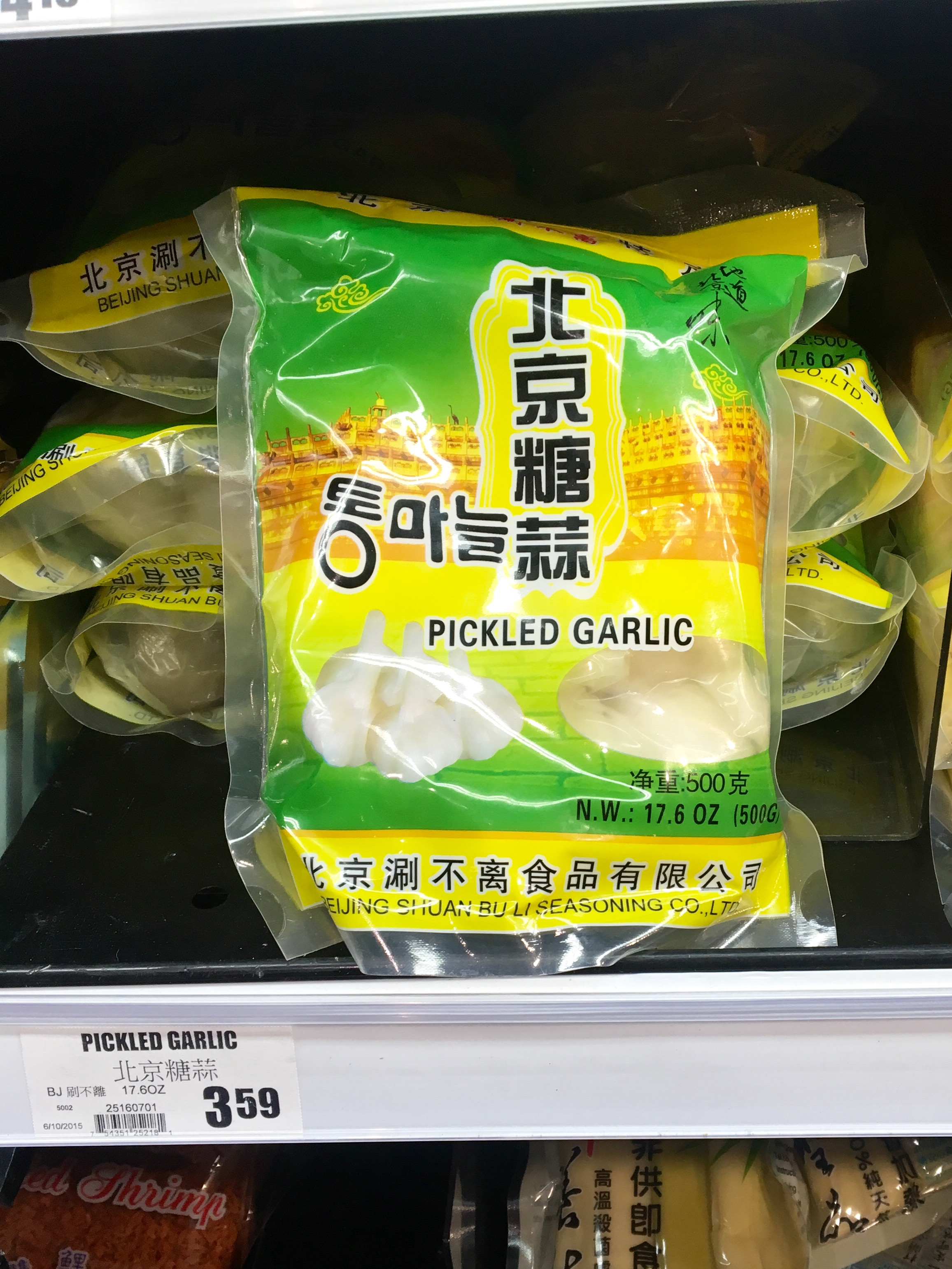 Picked Garlic of Beijing, sold in packages in a grocery store in Seattle